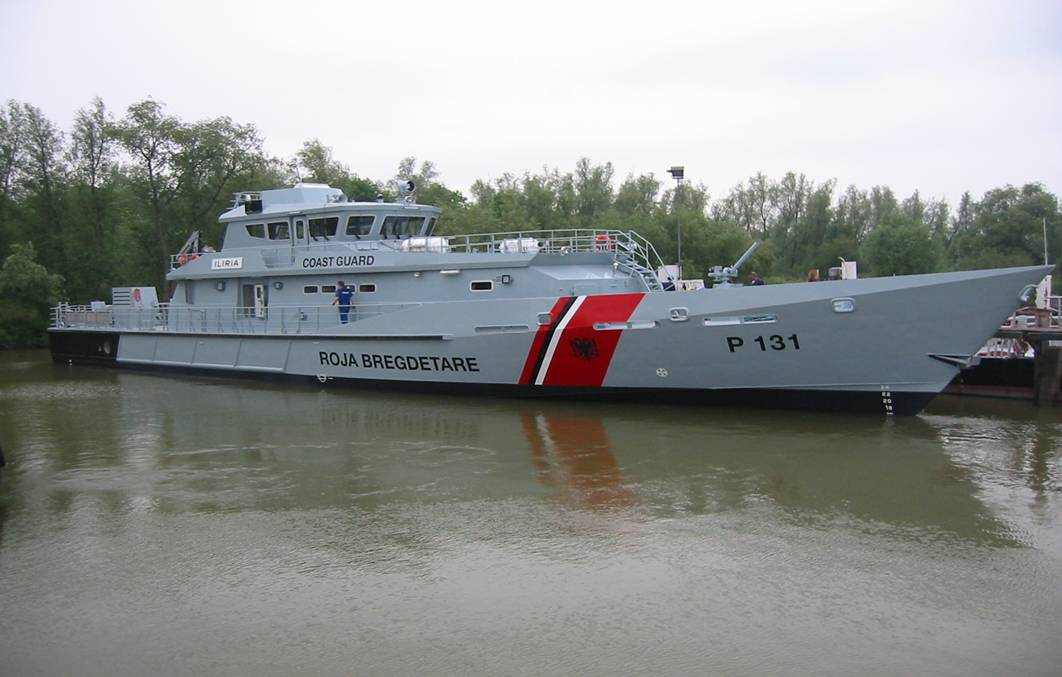 The first Patrol Boat "Damen Stan Type 4207" for the Albanian Coast Guard being prepared in Netherland.